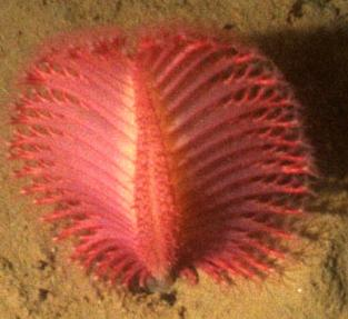 Overhead view of a Sea pen (Pennatula aculeata) at Stellwagen Bank